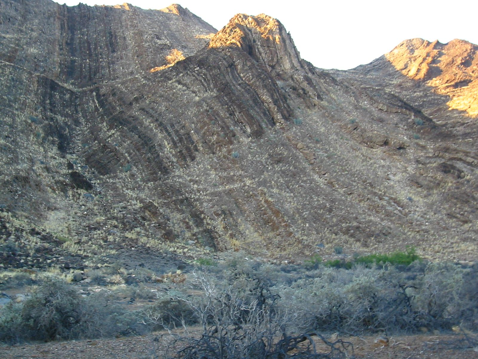 Neoproterozoic turbiditic metasediments of the so-called Zerissene Turbidite System near the Brandberg-West Mine